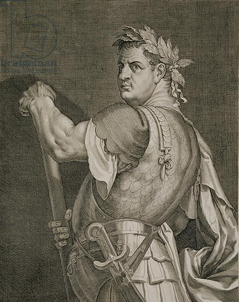 Engraved portrait of the Roman Emperor Titus. The engraving by Aegidius Sadeler II is one of 12 portraits of Roman emperors originally painted by Titian circa 1537 for Duke Federigo Gonzaga. Titian's original painting was destroyed in a fire in 1734. [1]